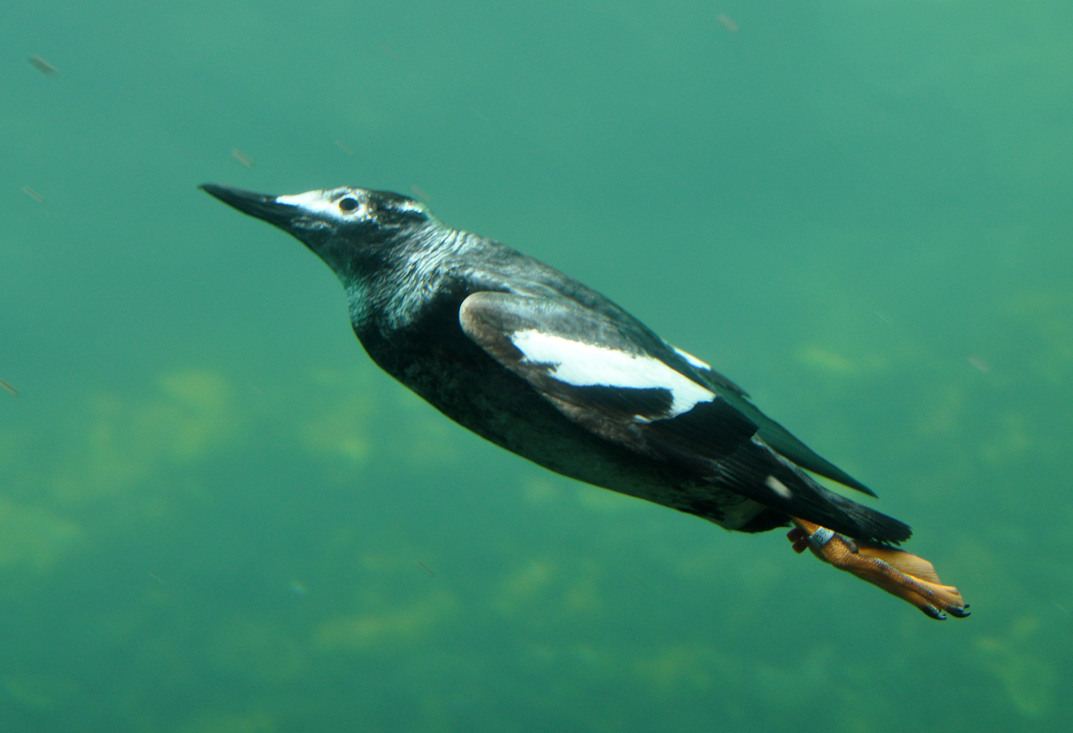 A Pigeon Guillemot (Cepphus columba) underwater in a tank at Living Coasts, in Torquay, UK